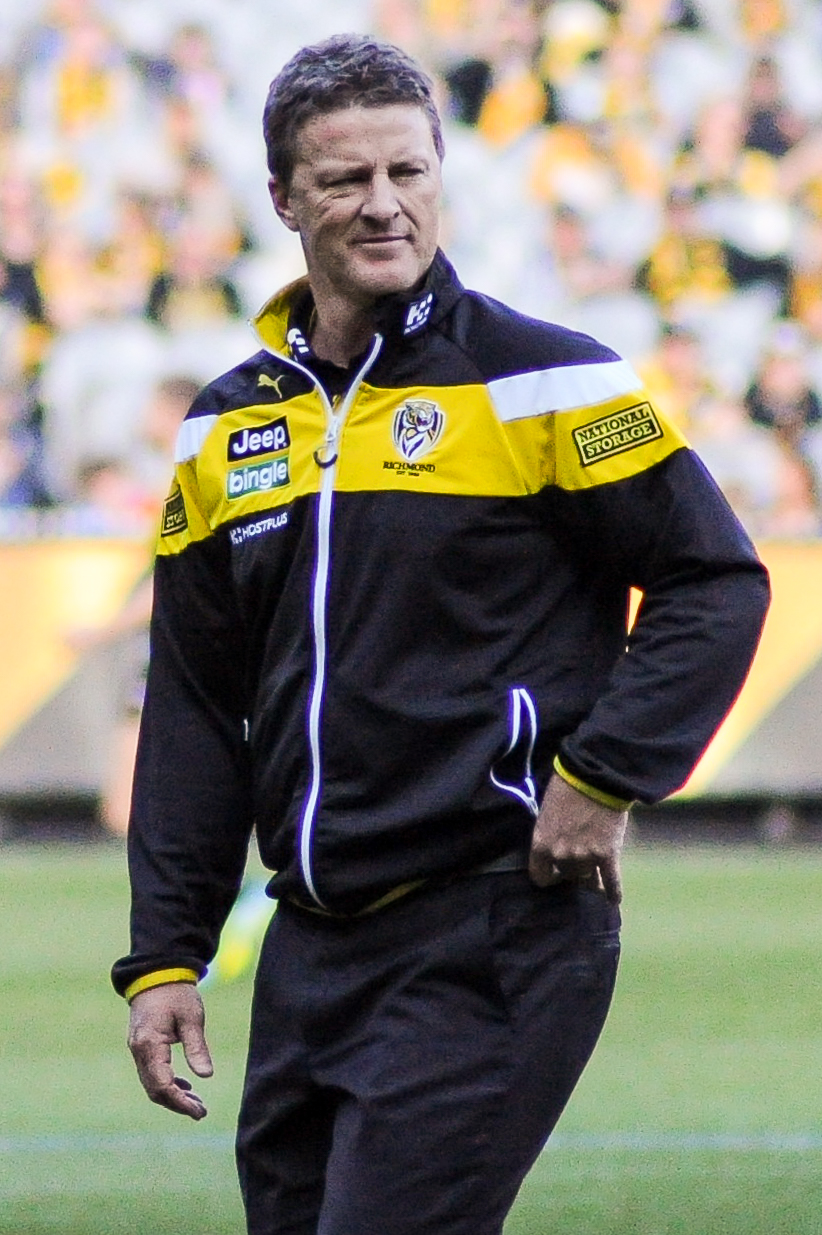 Damien Hardwick during the AFL round thirteen match between Richmond and Sydney on 17 June 2017 at the Melbourne Cricket Ground in Melbourne, Victoria.